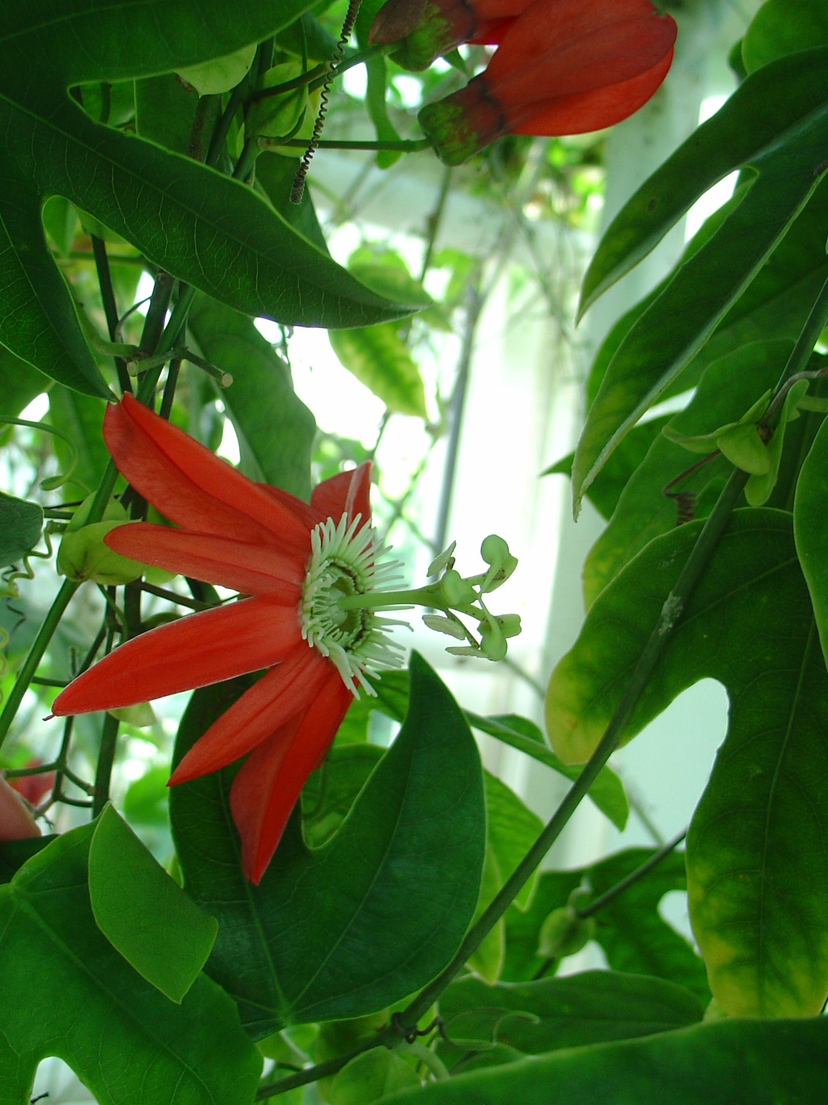 Passiflora racemosa. University of Helsinki Botanical Garden, Finland.